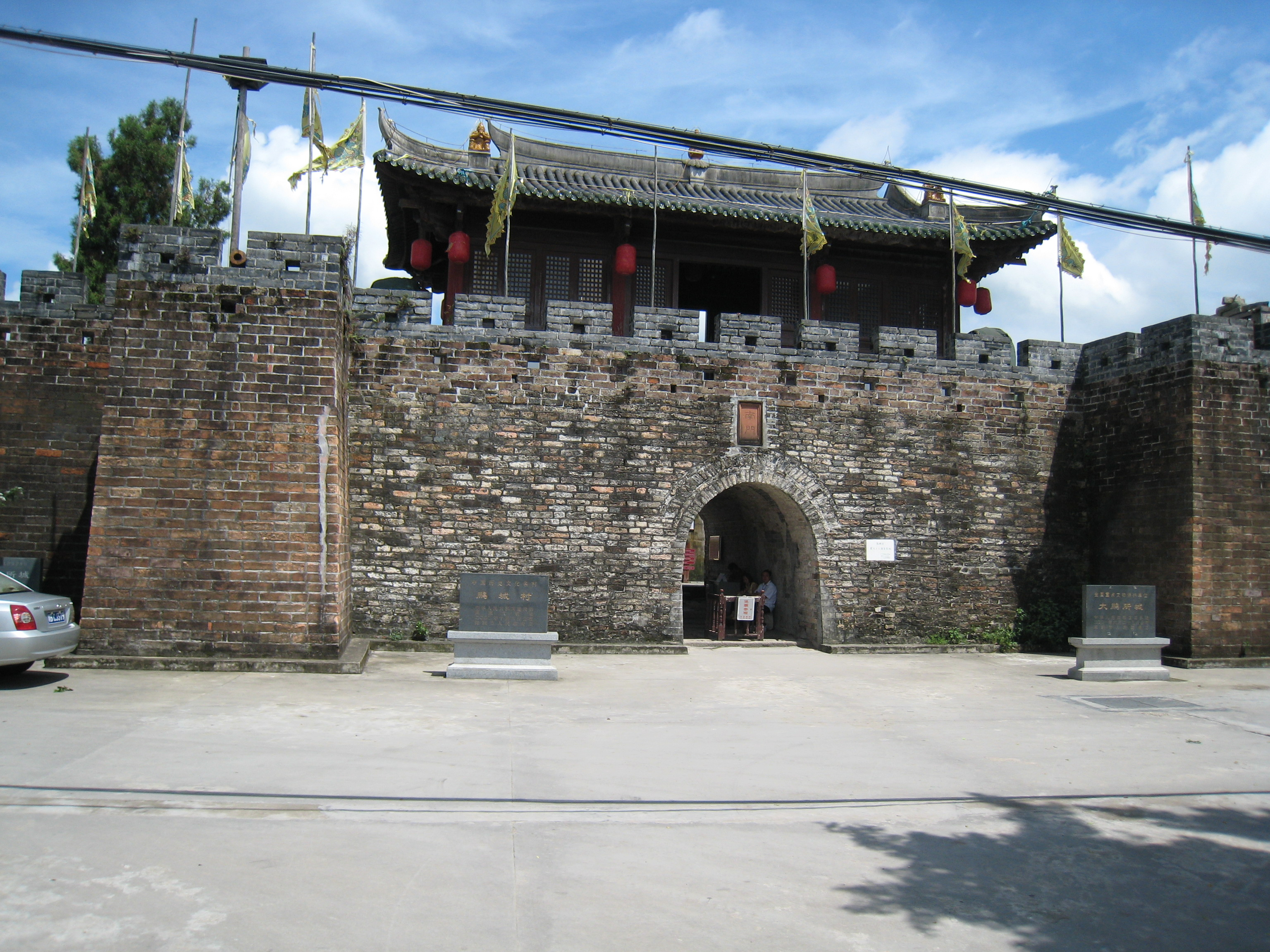 The Nanmen of Dapengcheng